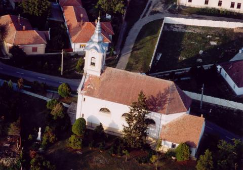 Saint Jakob church in Csépa, Hungary, aerial photography